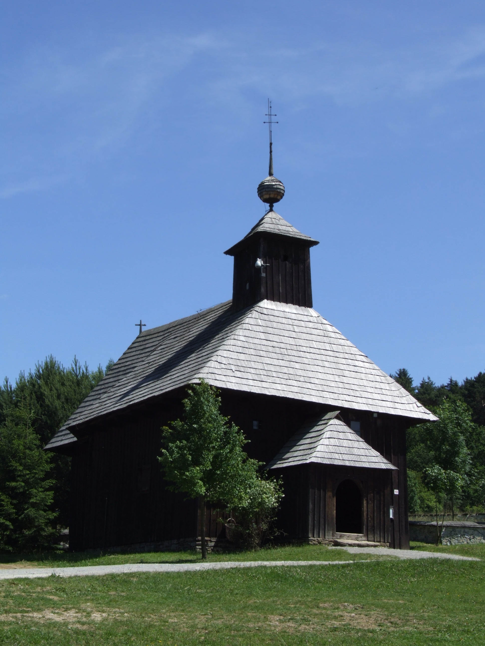 Open air museum Múzeum slovenskej dediny - Martin, Slovakia. Wooden church from Rudno Ślůnski: Drzewjanny kośćůł ze wśi Rudno, we Słowacyji - skansyn we mjeśće Martin